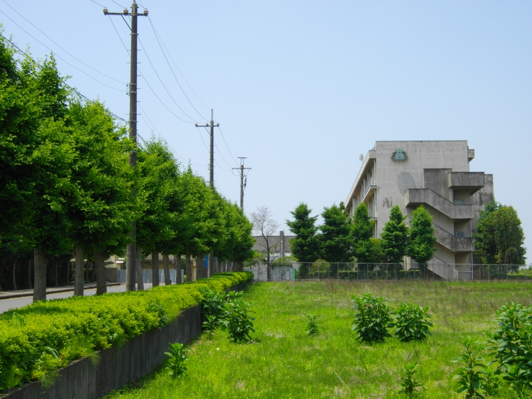 Yachimata High School